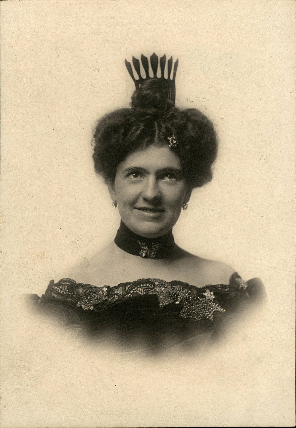 Marie Van Tassell, stage and stock actress Subjects: actresses